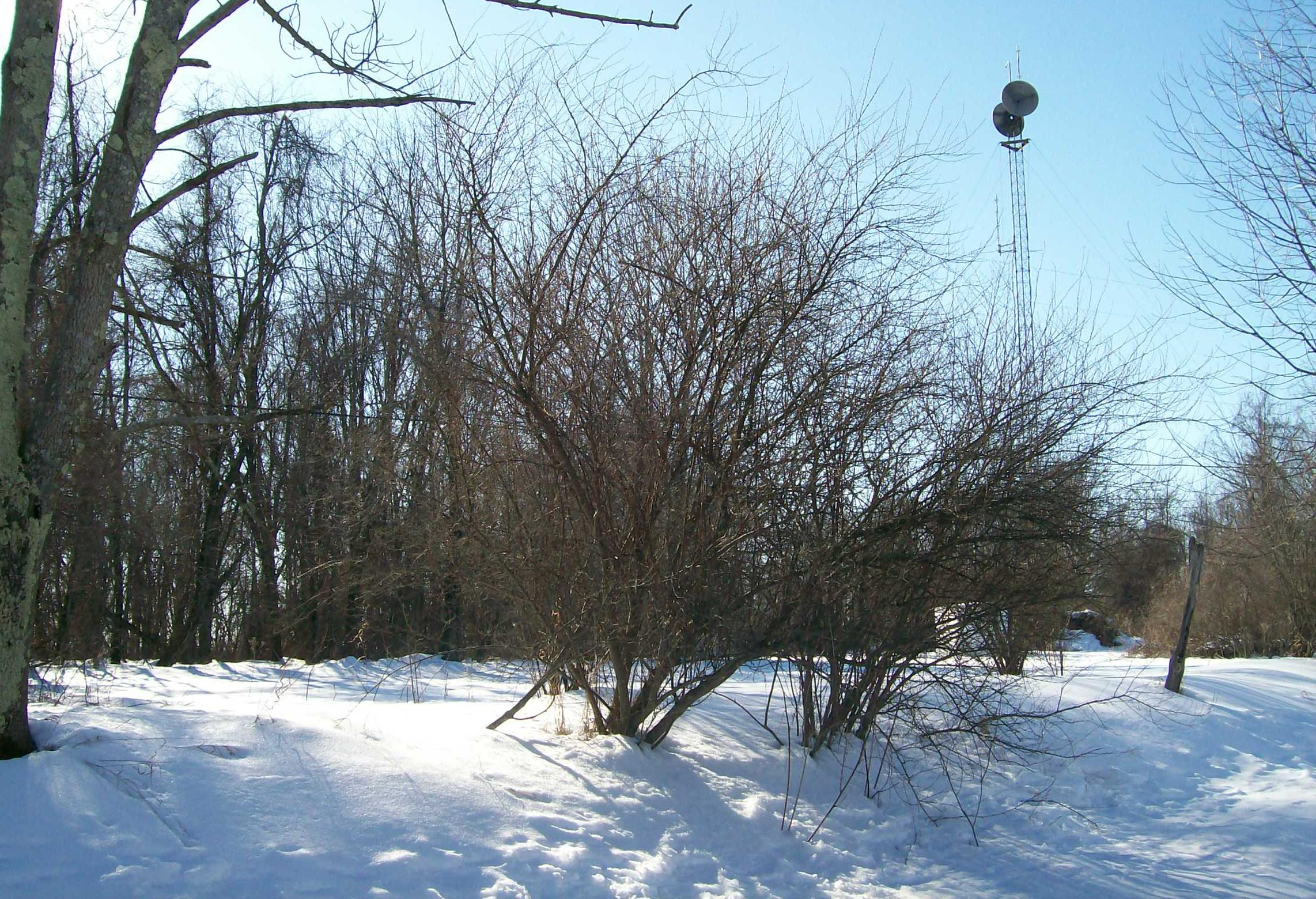 The Tower Site on March 2, 2010, in Belmont County, Ohio, northwest of Barnesville. The archaeological site was the scene of excavations during the late 1970s with an excavation behind the tree to the far-left, and another site at the far right of the image. The site is photographed looking northwest over the property. The namesake, a radio tower can be seen in the background. The property was added to the NRHP in 1982.